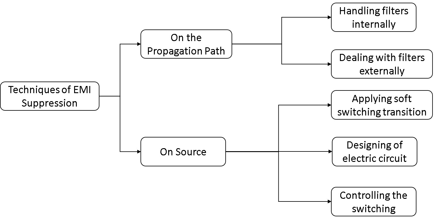 This flowchart shows EMI suppression techniques based on path and source.